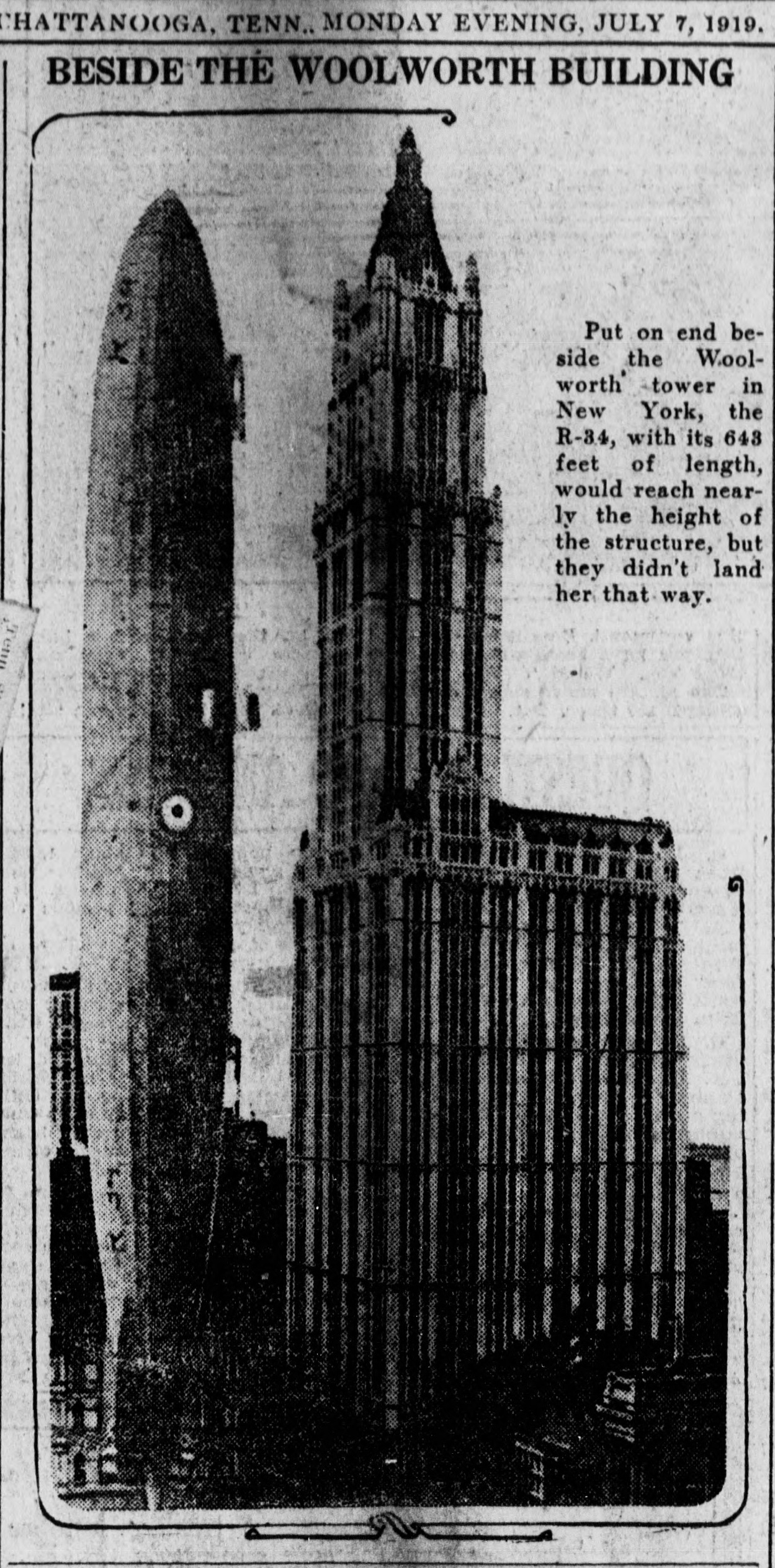 R-34 next to the Woolworth building